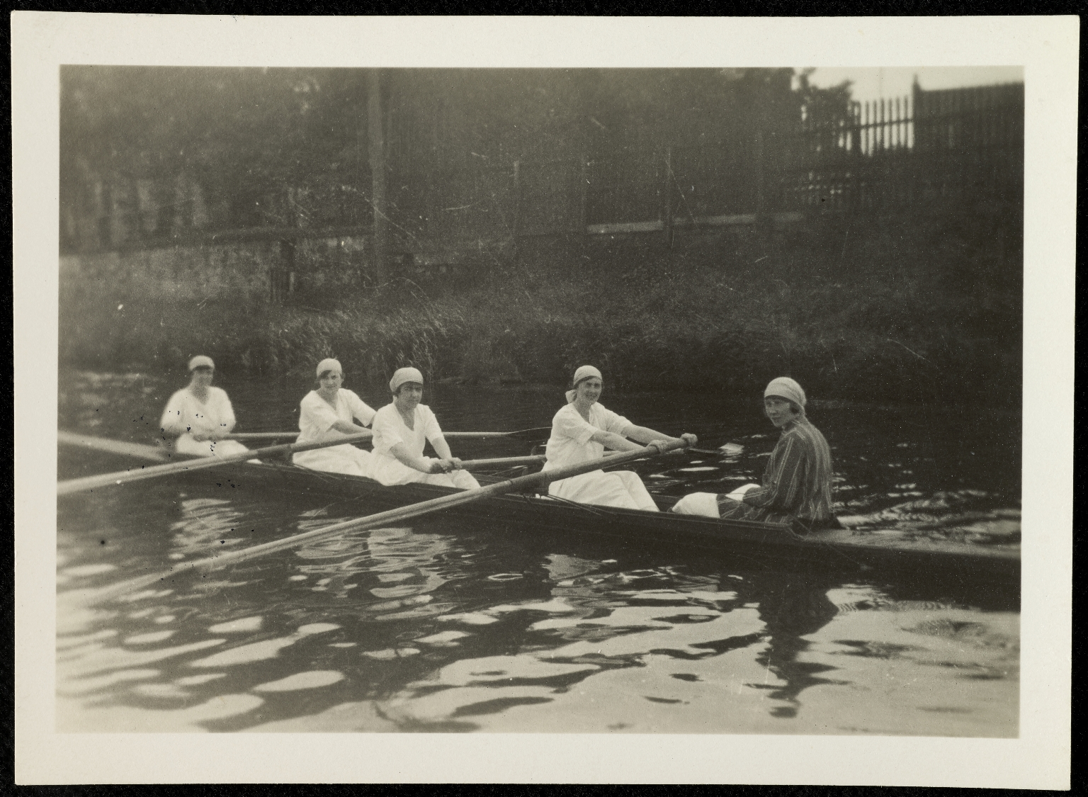 Medical women's 4s rowing on the canal, 1922